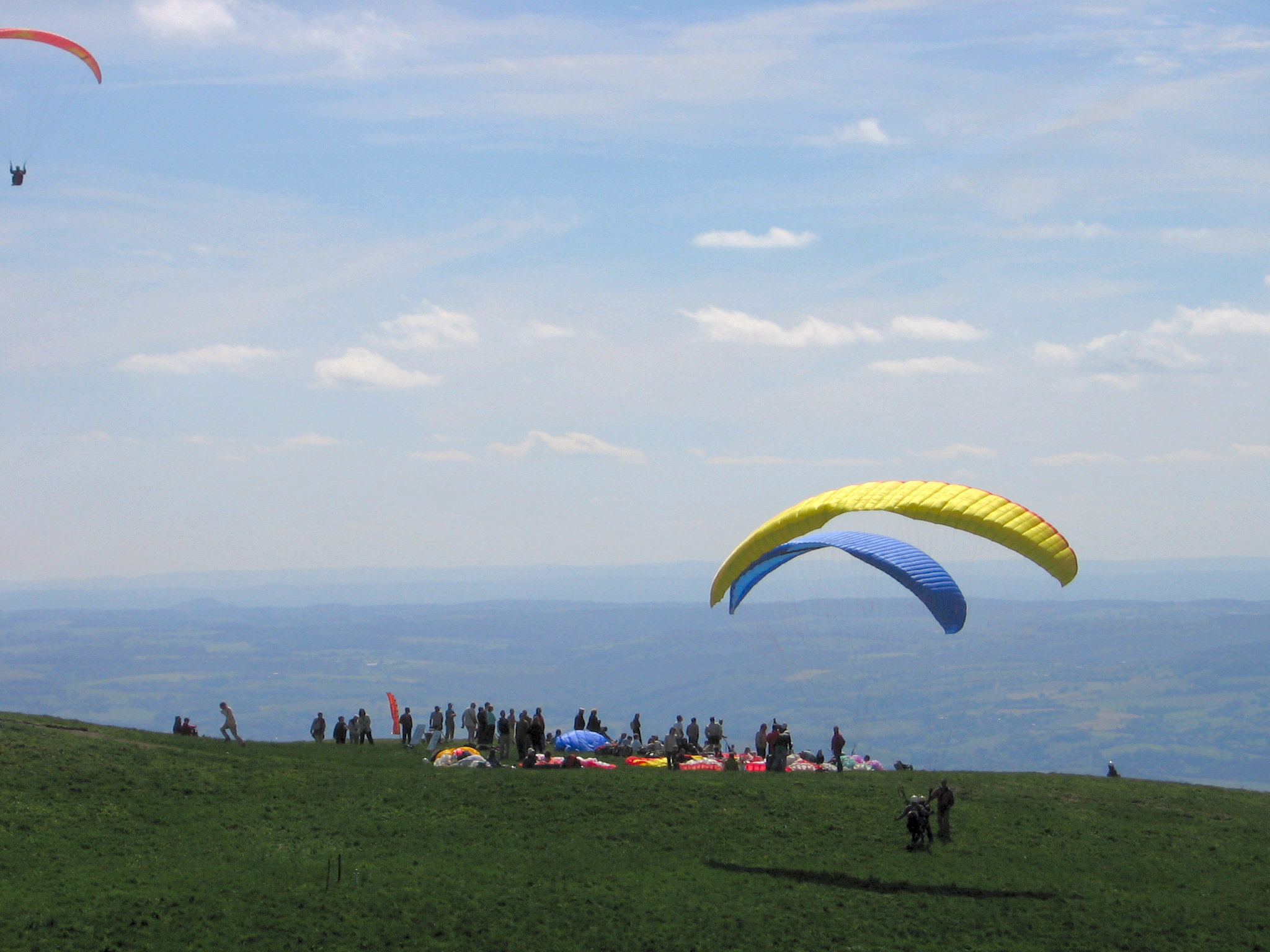 Paragliders on Puy de DomeCamera : Canon Powershot A510